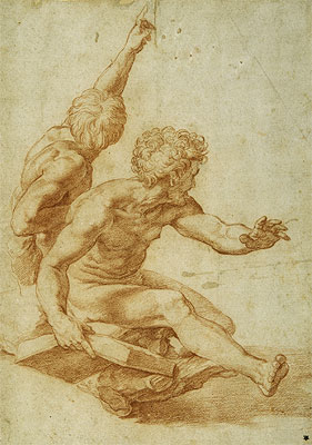 St. Andrew and another apostle; auxiliary cartoon for the Tranfiguration; Chatsworth 51, red chalk over stylus, 328 x 232 mm